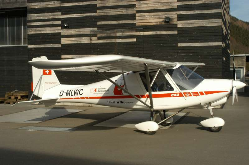 Ecolight Ikarus C42 (D-MLWC)